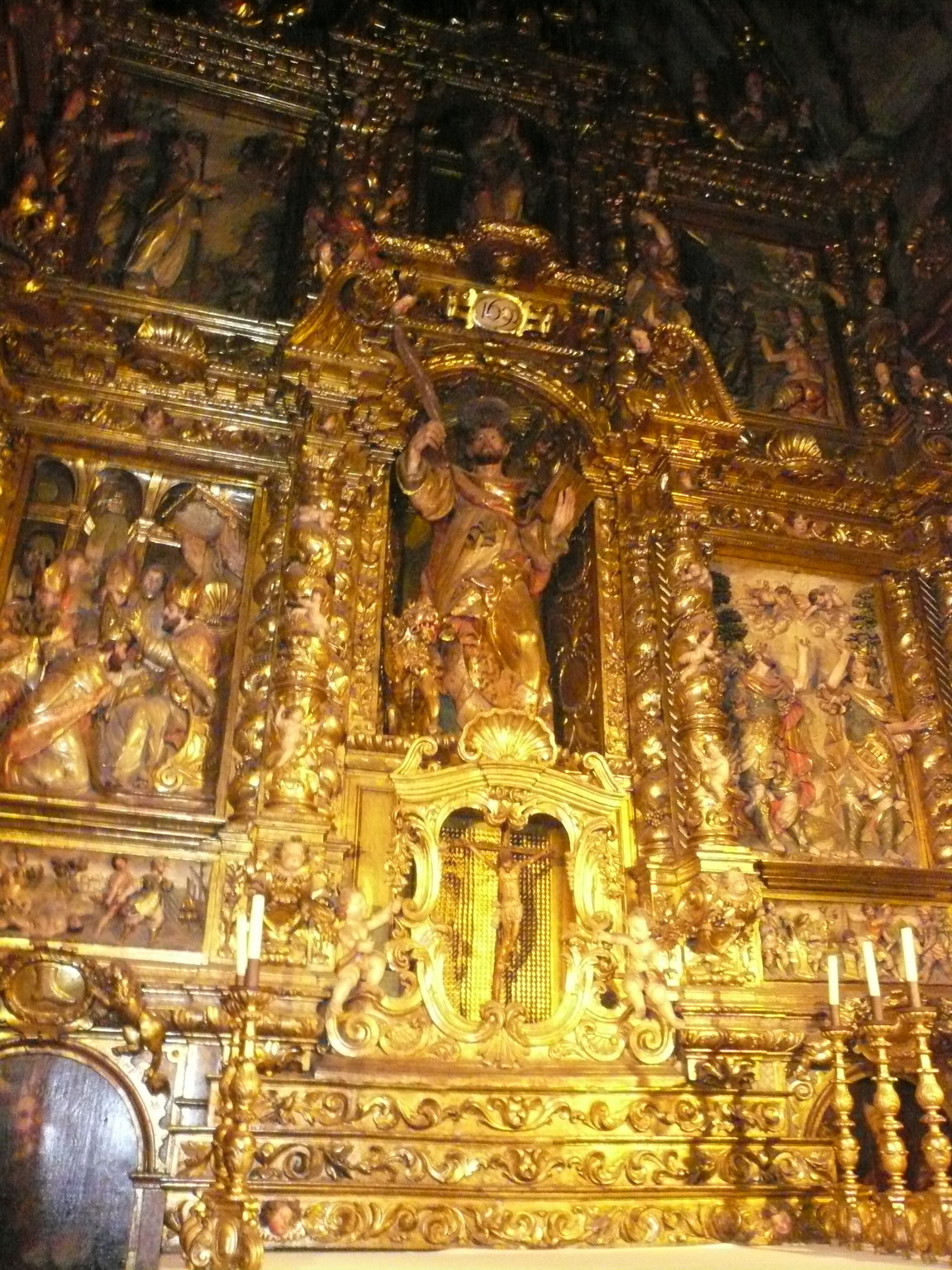 Sant Marc, 1692, in cathedral of Barcelona